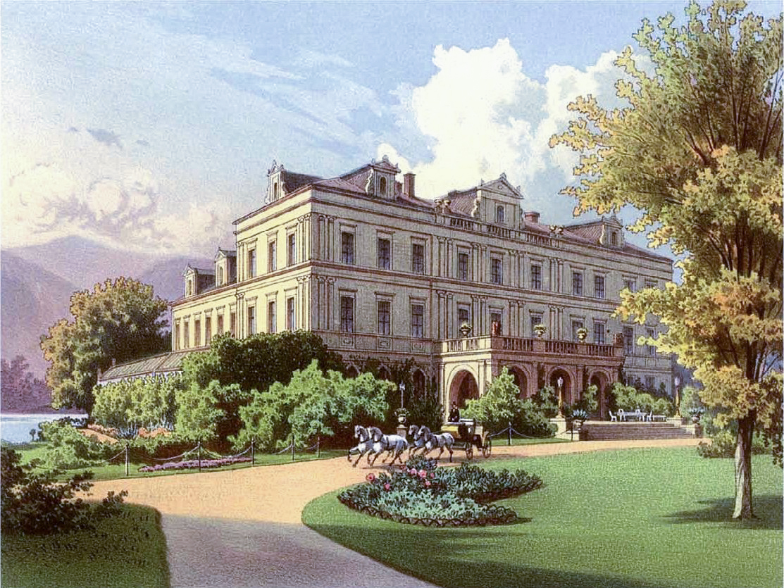 Palace in Ostroszowice/Weigelsdorf, 19th century